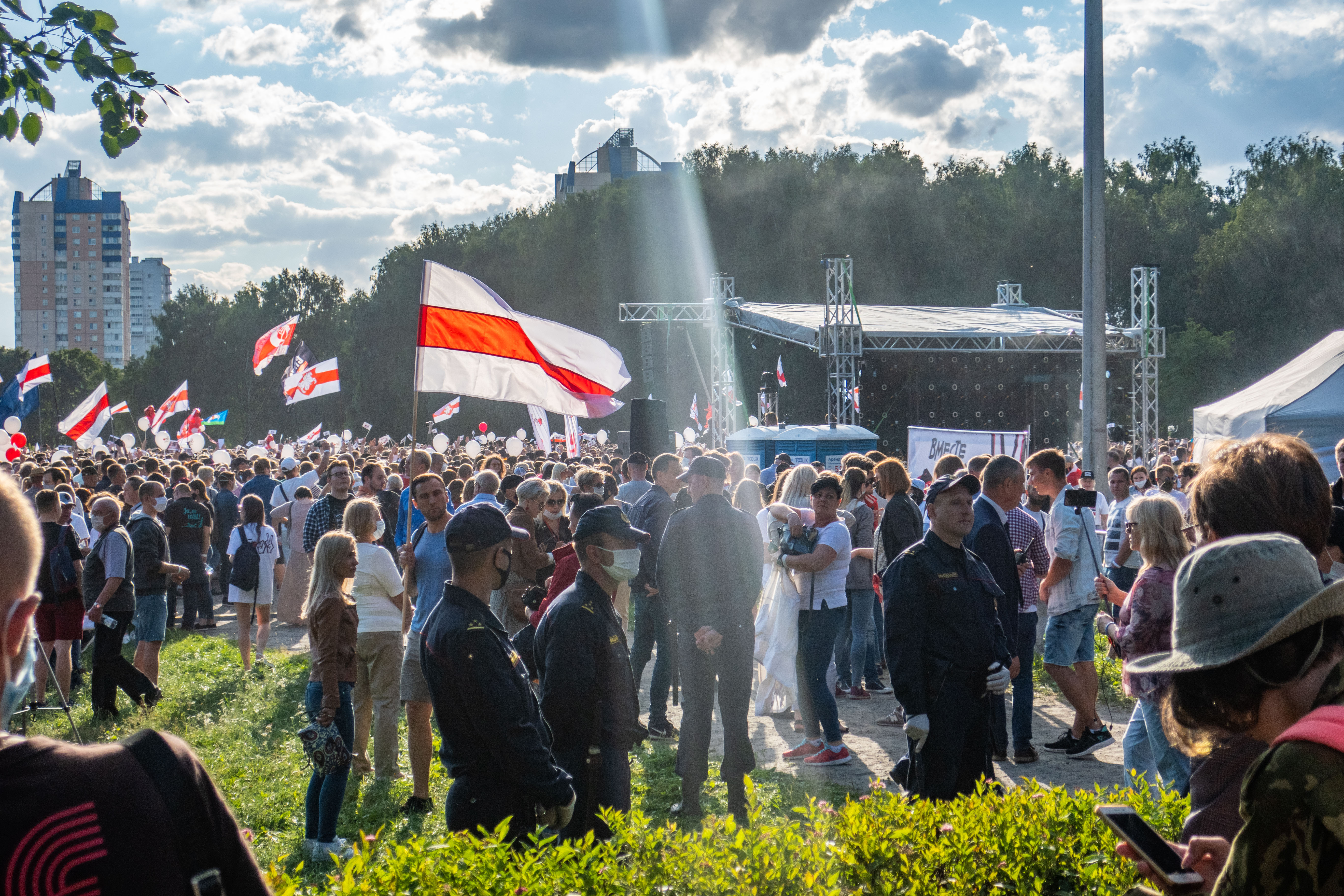 Rally in support of Sviatlana Tsikhanoŭskaya and the joint campaign headquarters. 30 July 2020, Minsk, Belarus